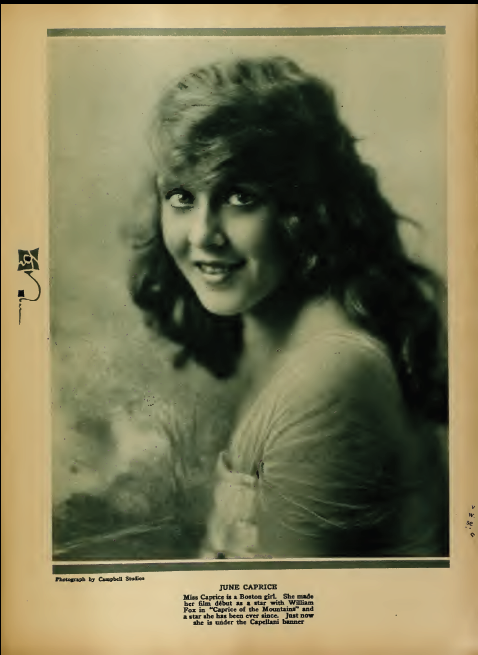 June Caprice Motion Picture Classic 1920